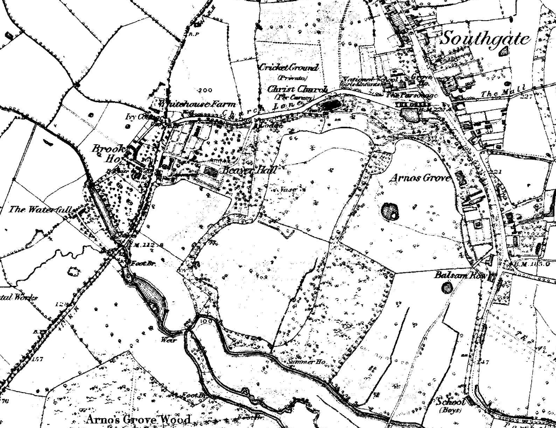 Beaver Hall and Arnos Grove Southgate Ordnance Survey map 1868-1883